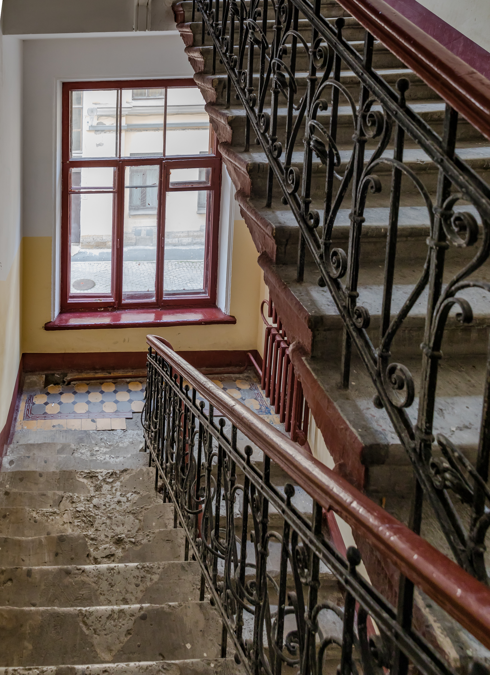 Saint Petersburg Rasputin's house Gorokhovaya Street 64